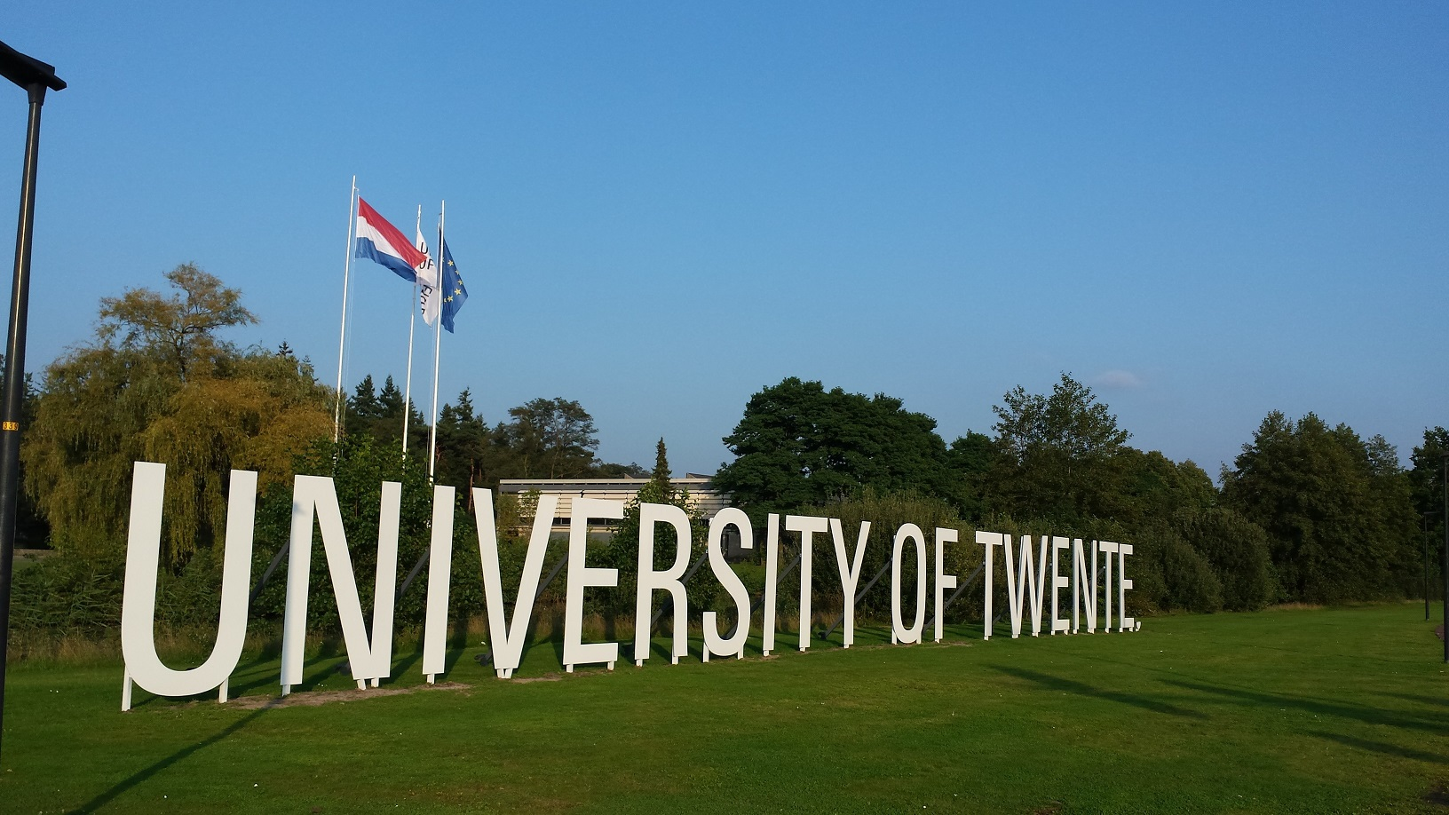 University of twente